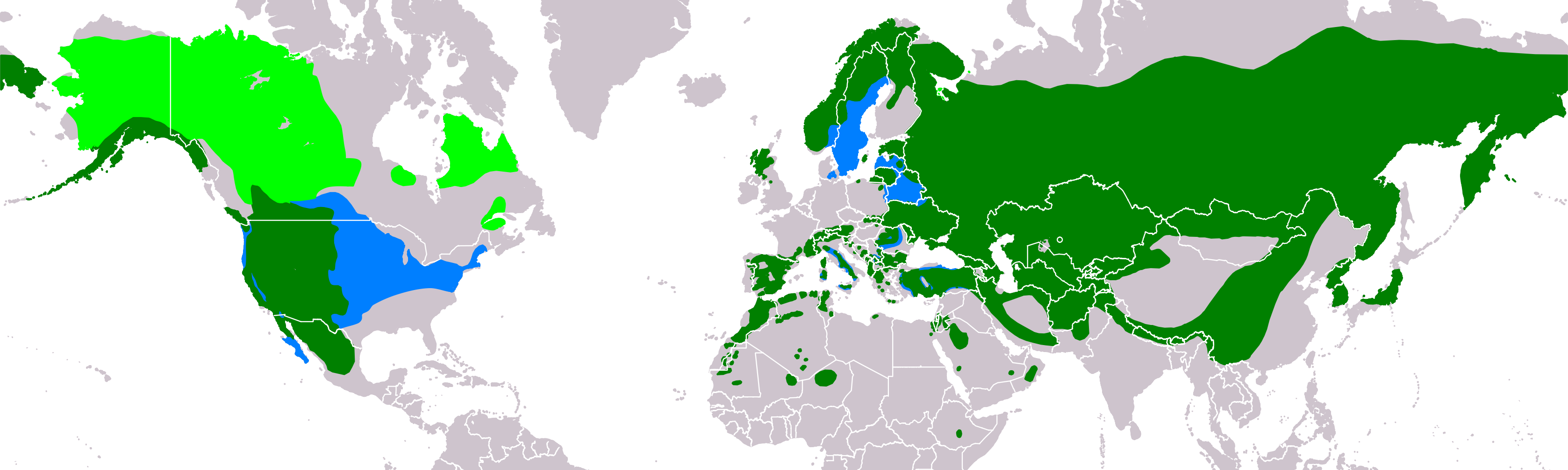 distribution map of golden eagle (Aquila chrysaetos) according to IUCN version 2018.2 , Legend: Extant, breeding (#00FF00), Extant, resident (#008000), Extant, non-breeding (#007FFF)